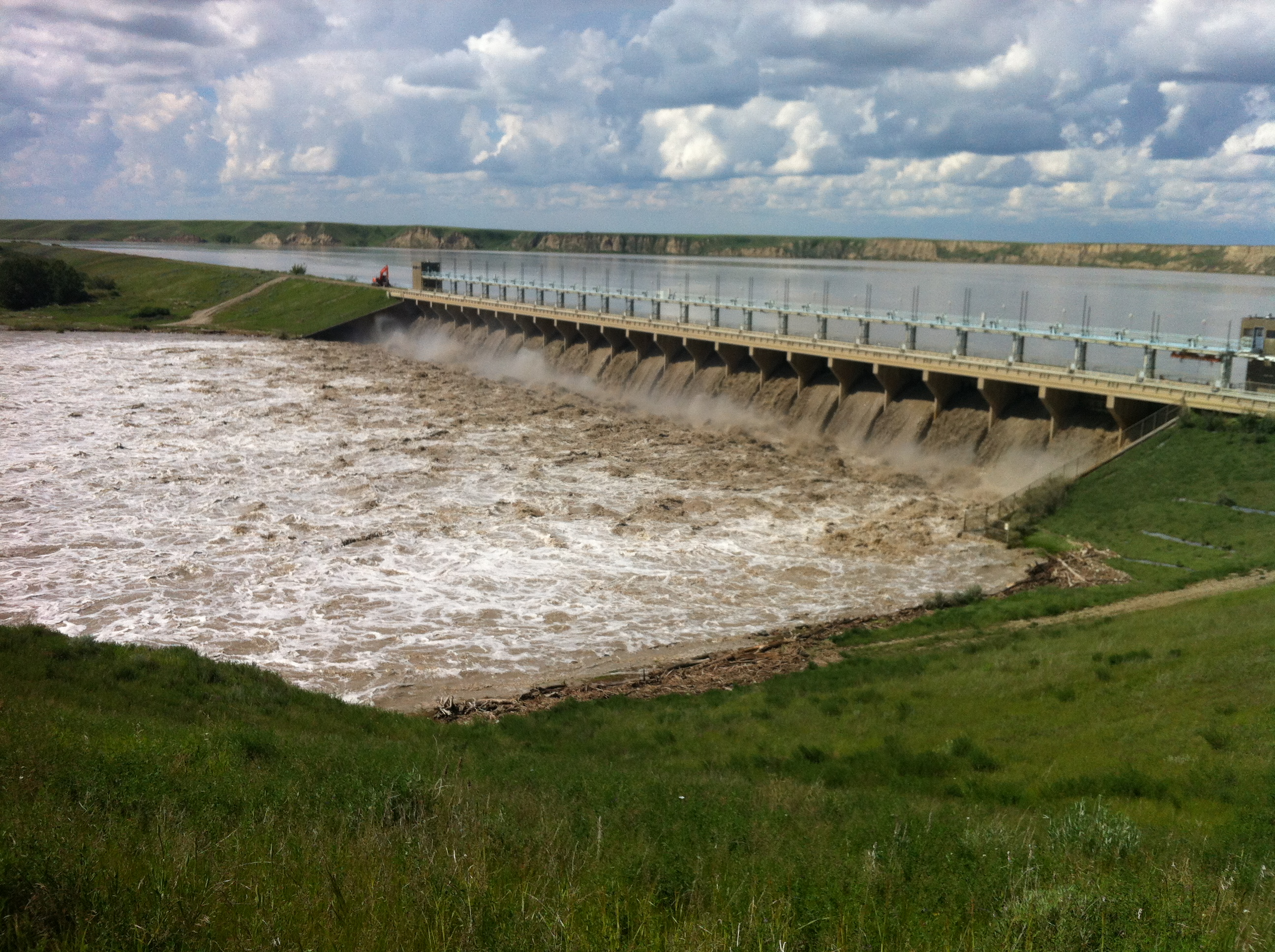 Bassano Dam on June 23, 2013 during the Alberta floods